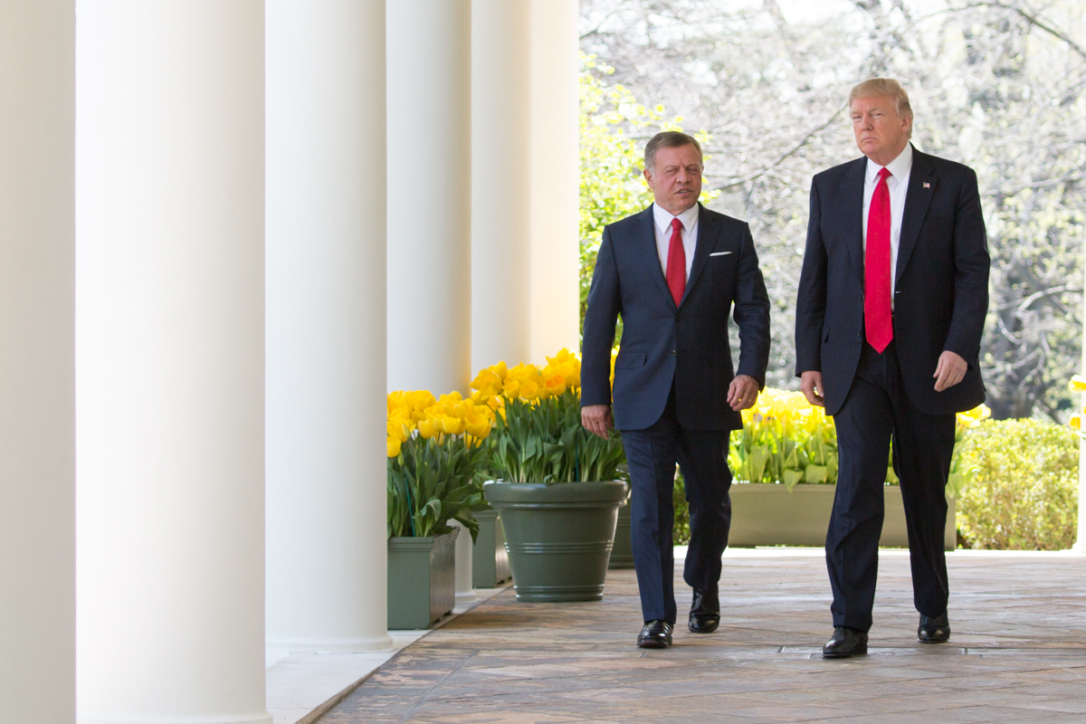 President Donald J. Trump and King Abdullah II of Jordan walk along the West Colonnade towards the podiums to begin a joint press briefing in the Rose Garden. (Official White House Photo by Shealah Craighead).